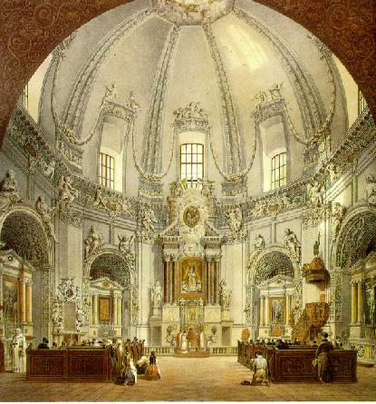 Intrior of Trinitarian Church in Vilnius, Lithuania. 1846. Lithograph.